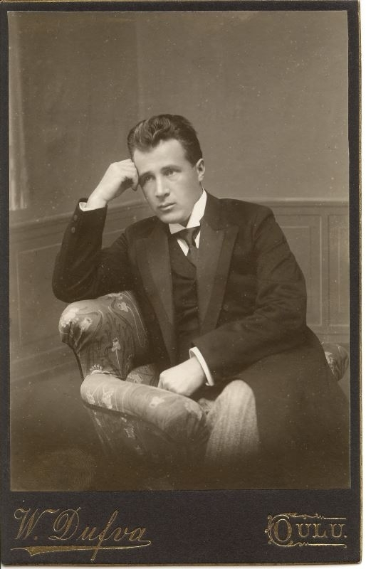 Leevi Madetoja, studio portrait taken by Wilho Dufva, in Oulu, Finland, prior to 1916. The glass negative of this image is in the Oulu County Archives